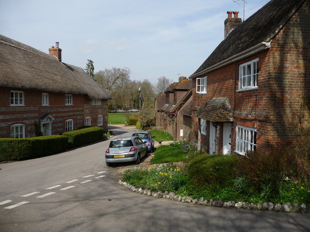 See title. The house on the left features as the home of Miss Jane Marple (as played by Joan Hickson) in St. Mary Mead.